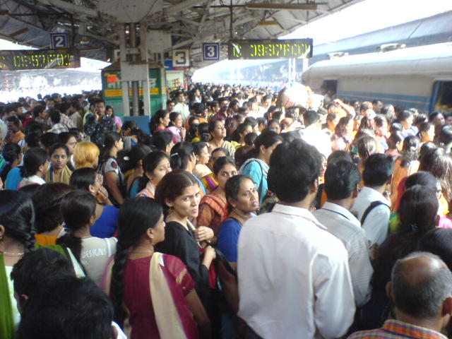 Mumbai railway rush hour. Commuters feel the crush at Borivali station.